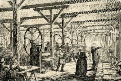 Manufacture Laroche Joubert, paper making plant